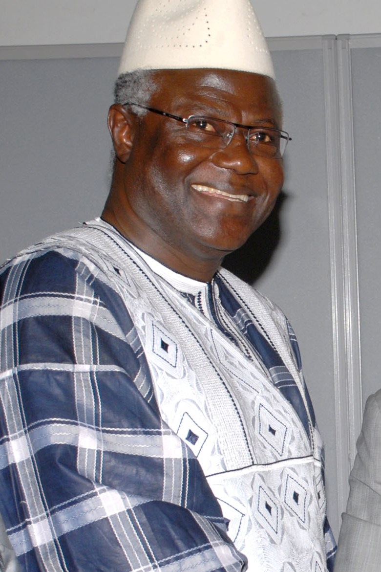 Ernest Bai Koroma, Former President of Sierra Leone, during a conference in Accra, Ghana